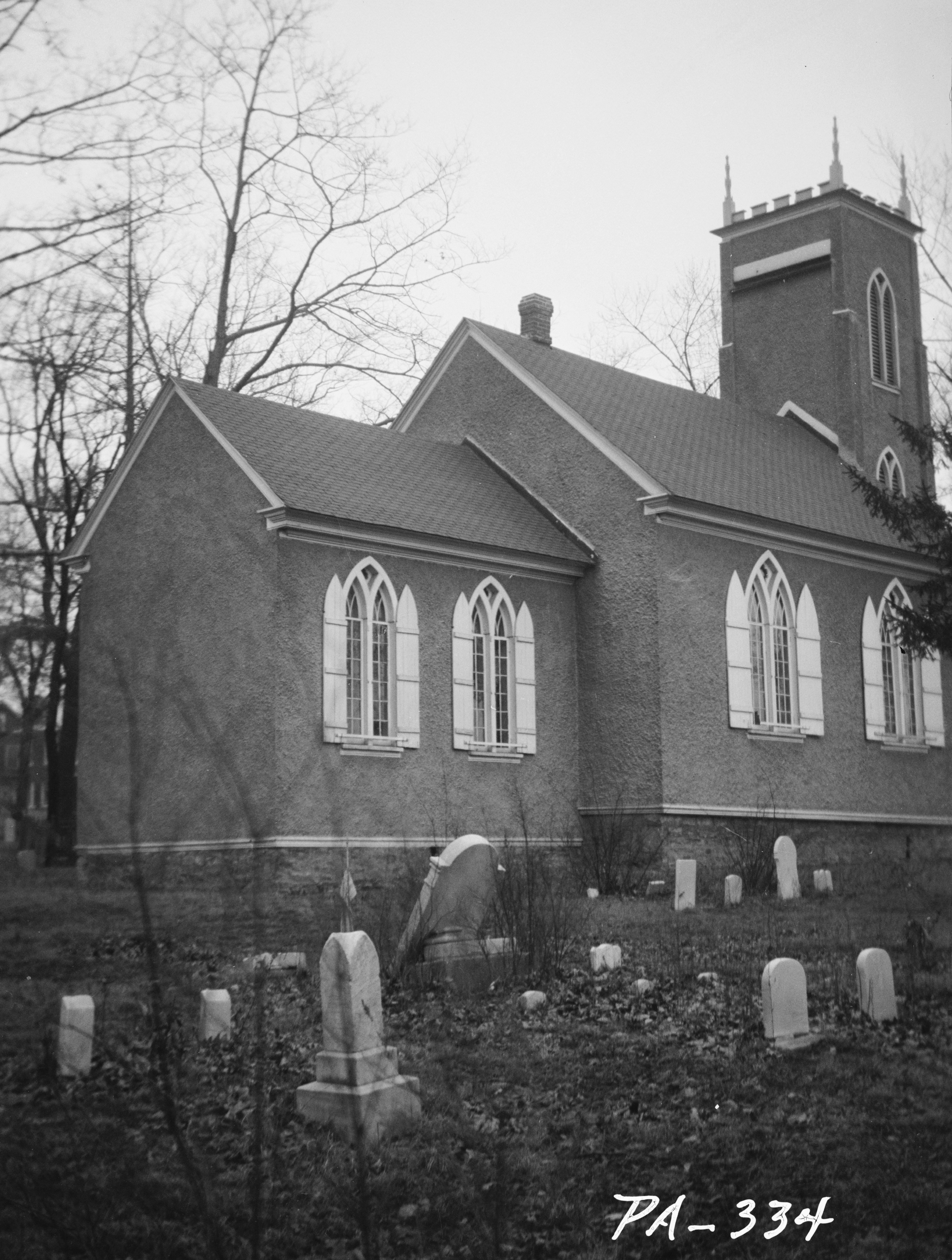 Union Church and Burial Ground, listed on the NRHP on May 23, 1978. On East Presqueisle Street, Philipsburg, Centre County, Pennsylvania. Built 1820, rebuilt 1842. This photo taken in 1935